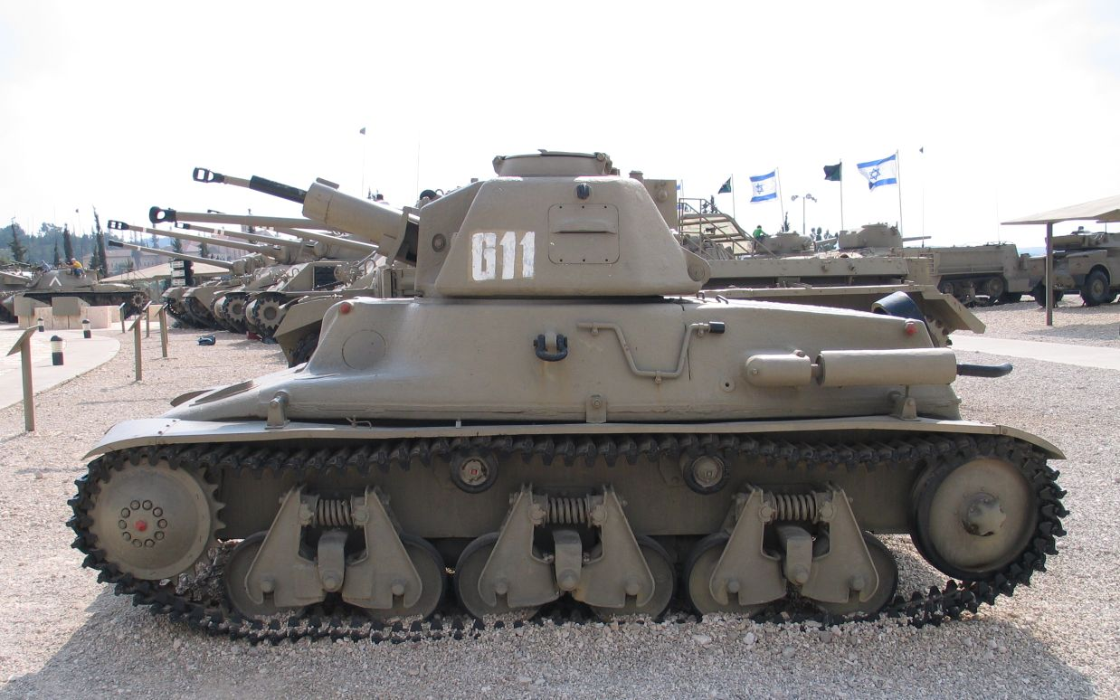 Description: Hotchkiss H-39 light tank in Yad la-Shiryon Museum, Israel. 2005. Source: Photo by me, User:Bukvoed